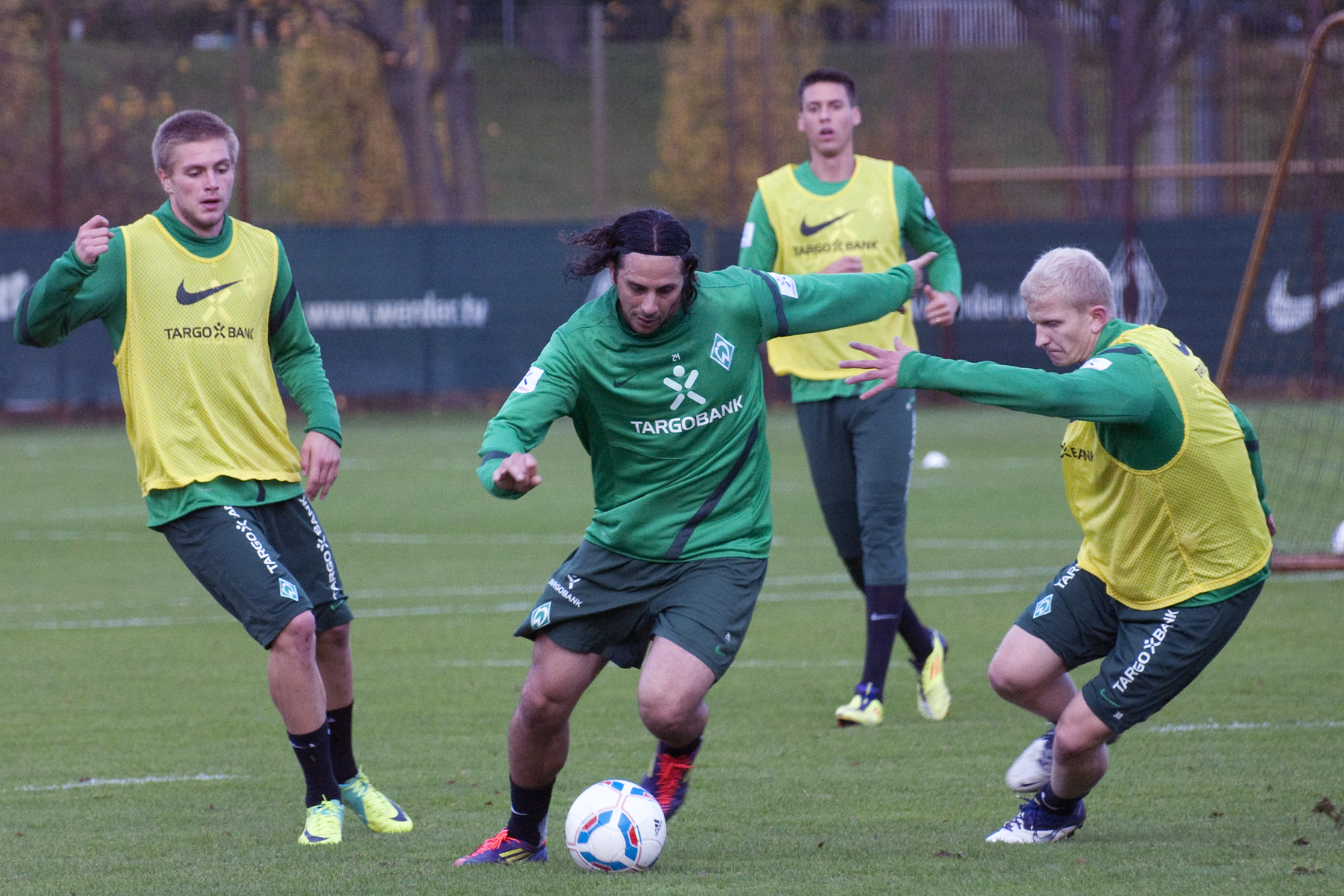 Claudio Pizarro, November 2011.